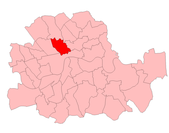 A map of Holborn and St Pancras South constituency within the London County Council area, as it existed from 1950 to 1974.